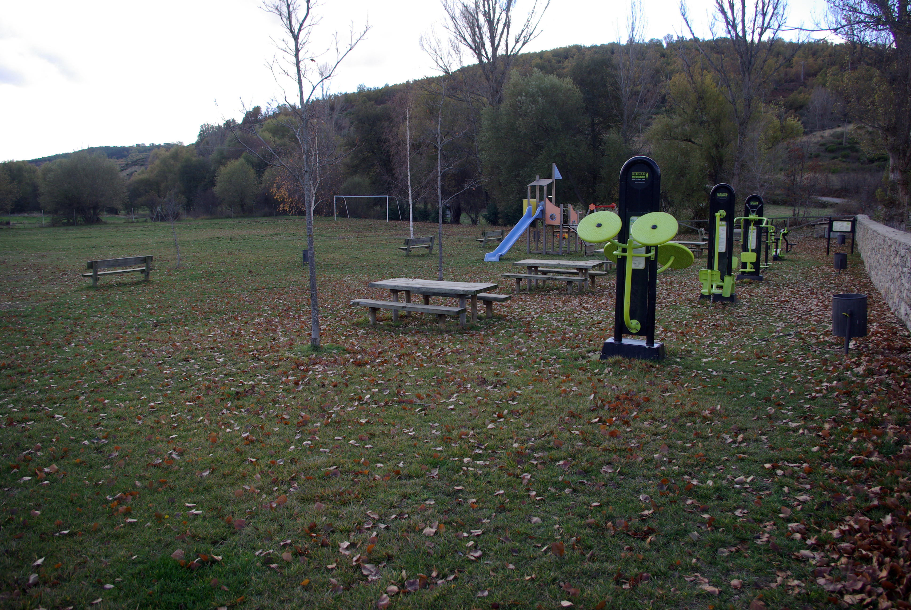 Playing field in Riello (León, Spain).